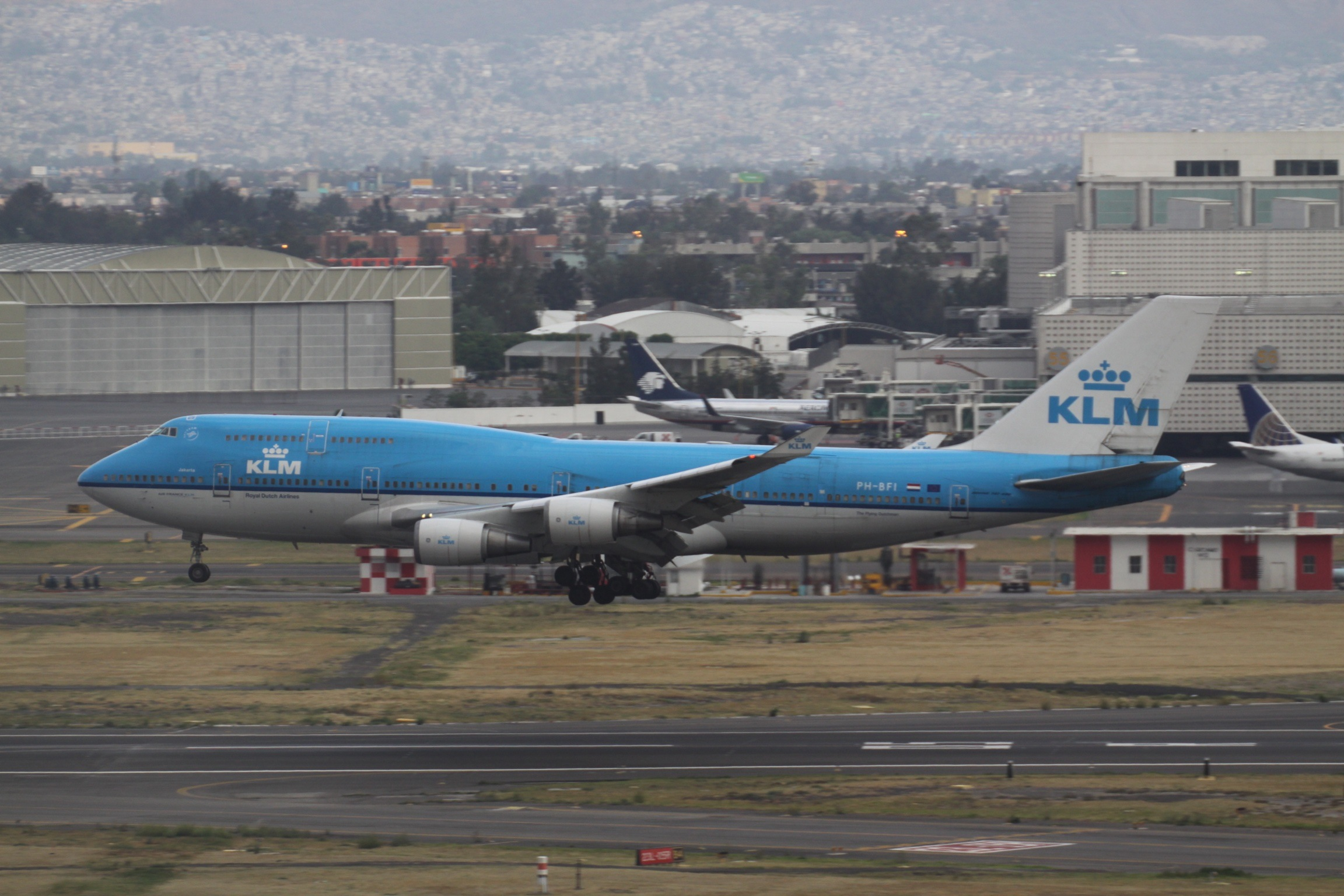 At Mexico City International Airport